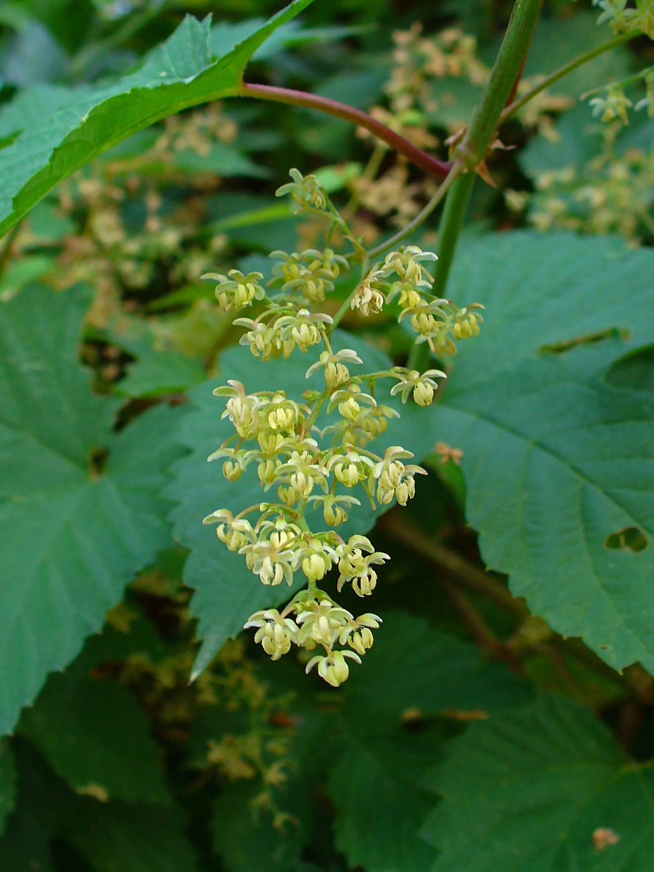 Common Hop, male inflorescence; Karlsruhe, Germany.